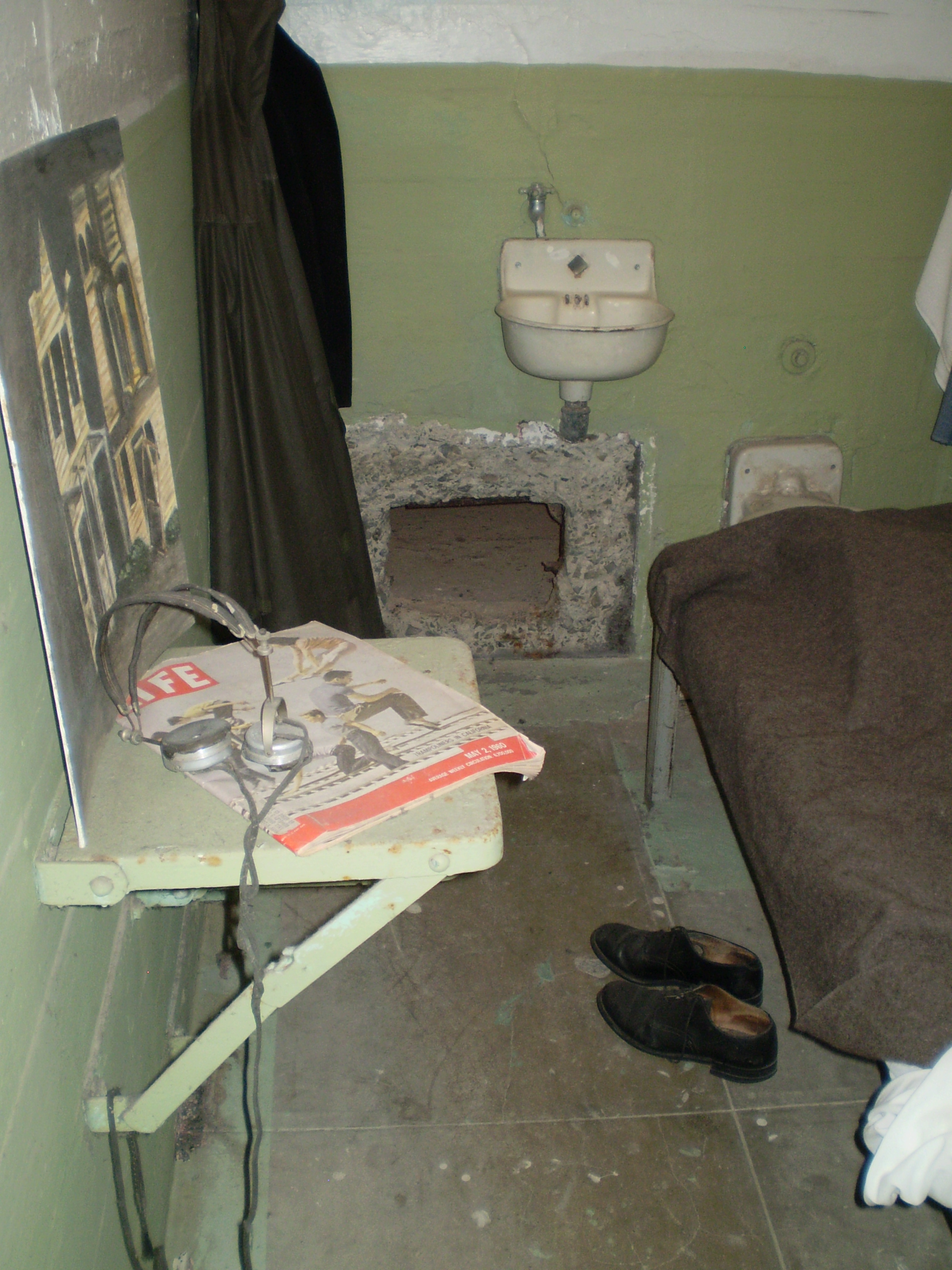 Cells in Alcatraz Island (Frank Morris, John Anglin e Clarence Anglin's ones)